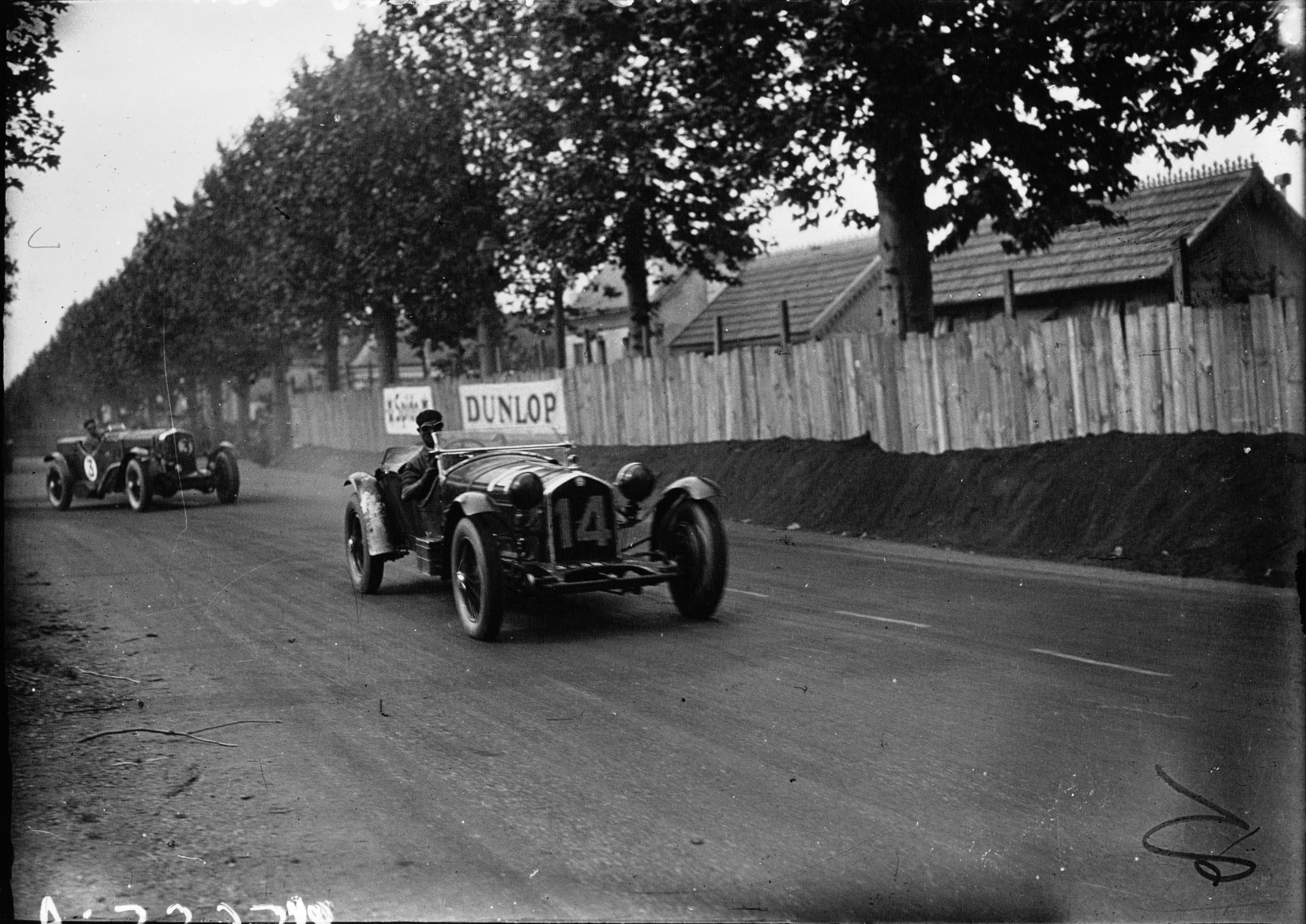 Alfa Romeo #14 of Zehender and Marinoni at the 1931 24 Hours of Le Mans.